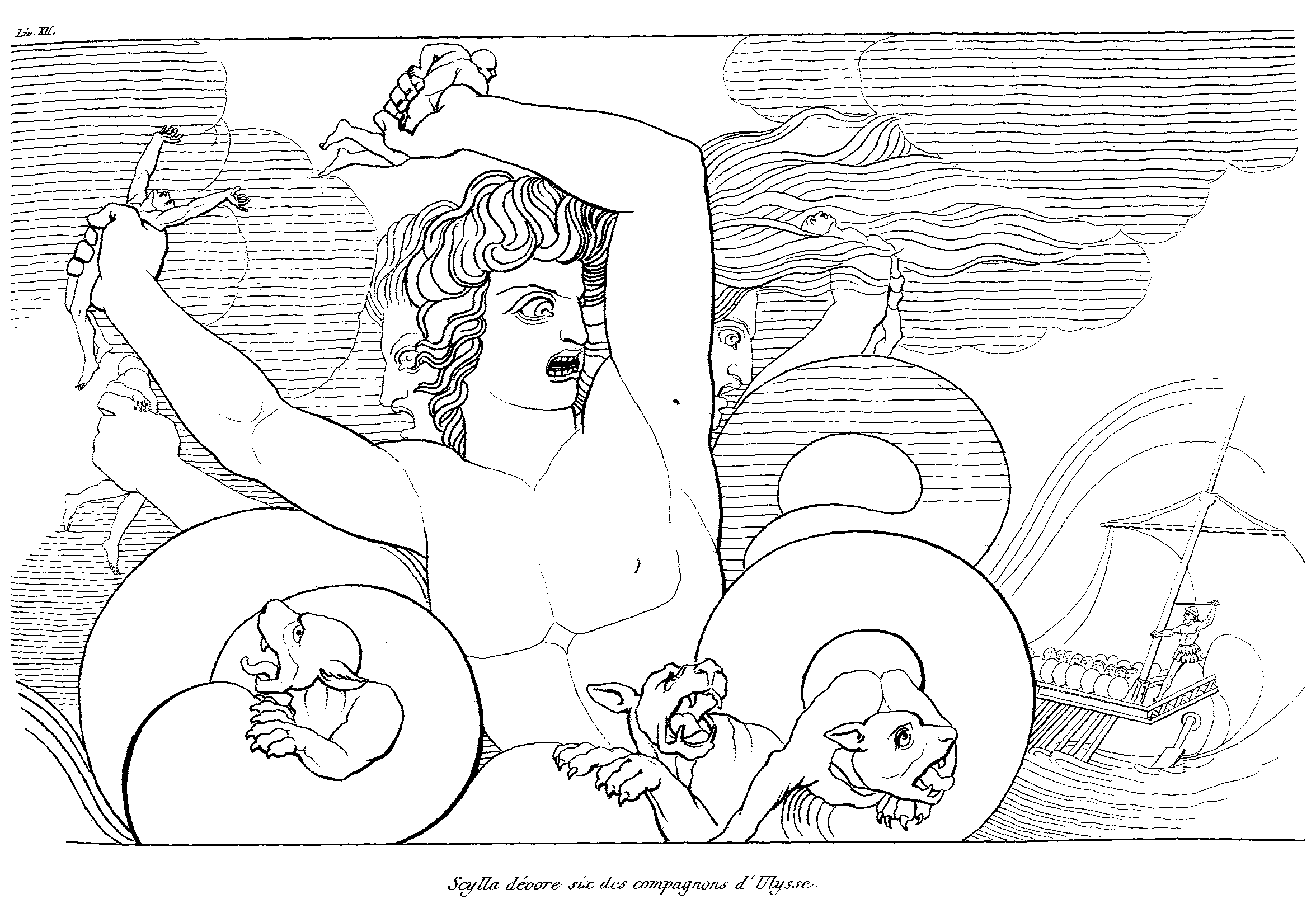 Illustrations of Odyssey